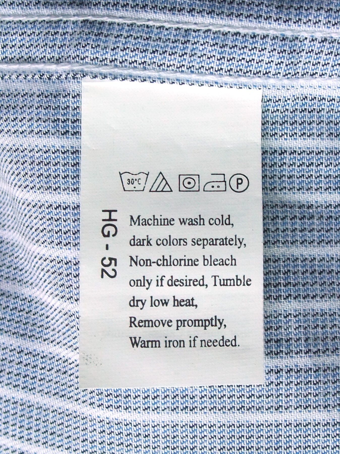 Laundry symbols on a care label attached to a shirt.